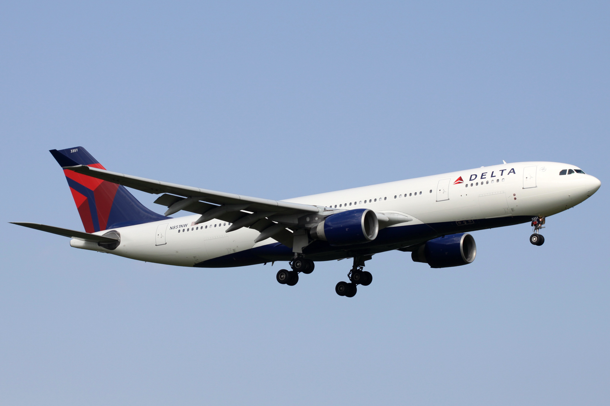 Final Approach to Runway 16R, Narita International Airport (Ship No.3351)